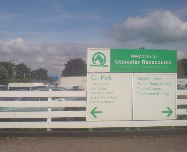 Photograph of Uttoxeter Racecourse car park sign taken while surveying Uttoxeter, UK, for A map of the location can be seen at The photograph was taken during the Newday 2008 week, which is the reason for the blue big top tent in the background.